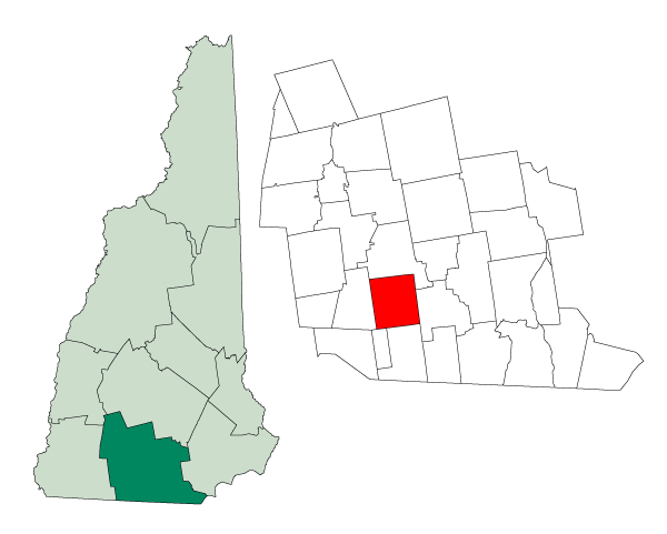 Map of a municipality in Hillsborough County, New Hampshire